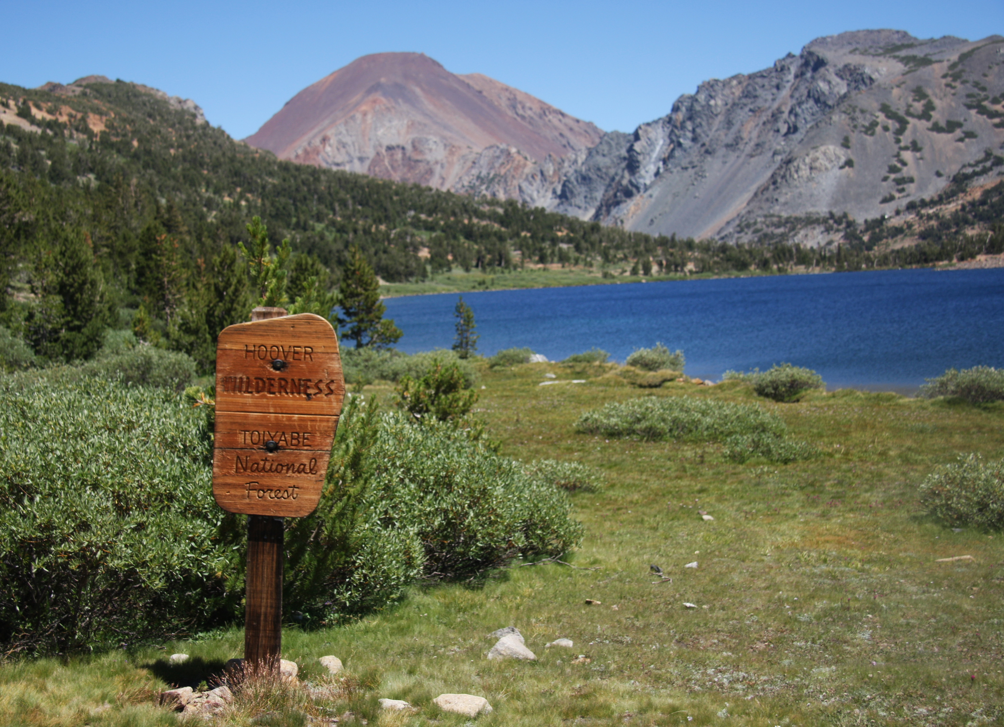 Hoover Wilderness sign at the pass over the Sierra crest at the west end of Summit Lake, the border between Yosemite Wilderness and Hoover Wilderness. AT 10,220ft in Hoover Wilderness, Sierra Nevada USA.